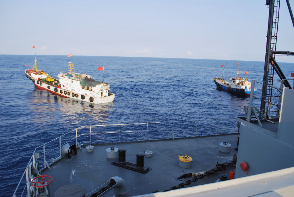 090308-N-0000X-003 SOUTH CHINA SEA (March 8, 2009) Two Chinese trawlers stop directly in front of the Military Sealift Command ocean surveillance ship USNS Impeccable (T-AGOS-23), forcing the ship to conduct an emergency "all stop" in order to avoid collision. The incident took place in international waters in the South China Sea about 75 miles south of Hainan Island. The trawlers came within 25 feet of Impeccable, as part of an apparent coordinated effort to harass the unarmed ocean surveillance ship. (U.S. Navy photo/Released)